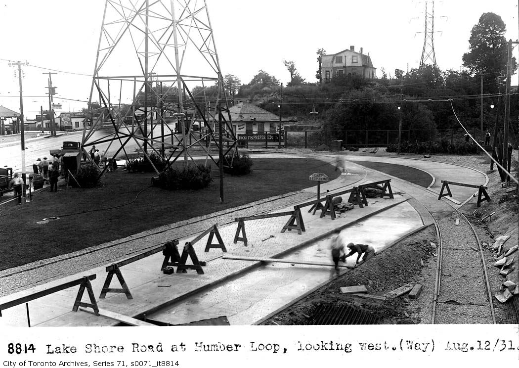 Lake Shore Road, at Humber Loop, looking west, (Way Department)